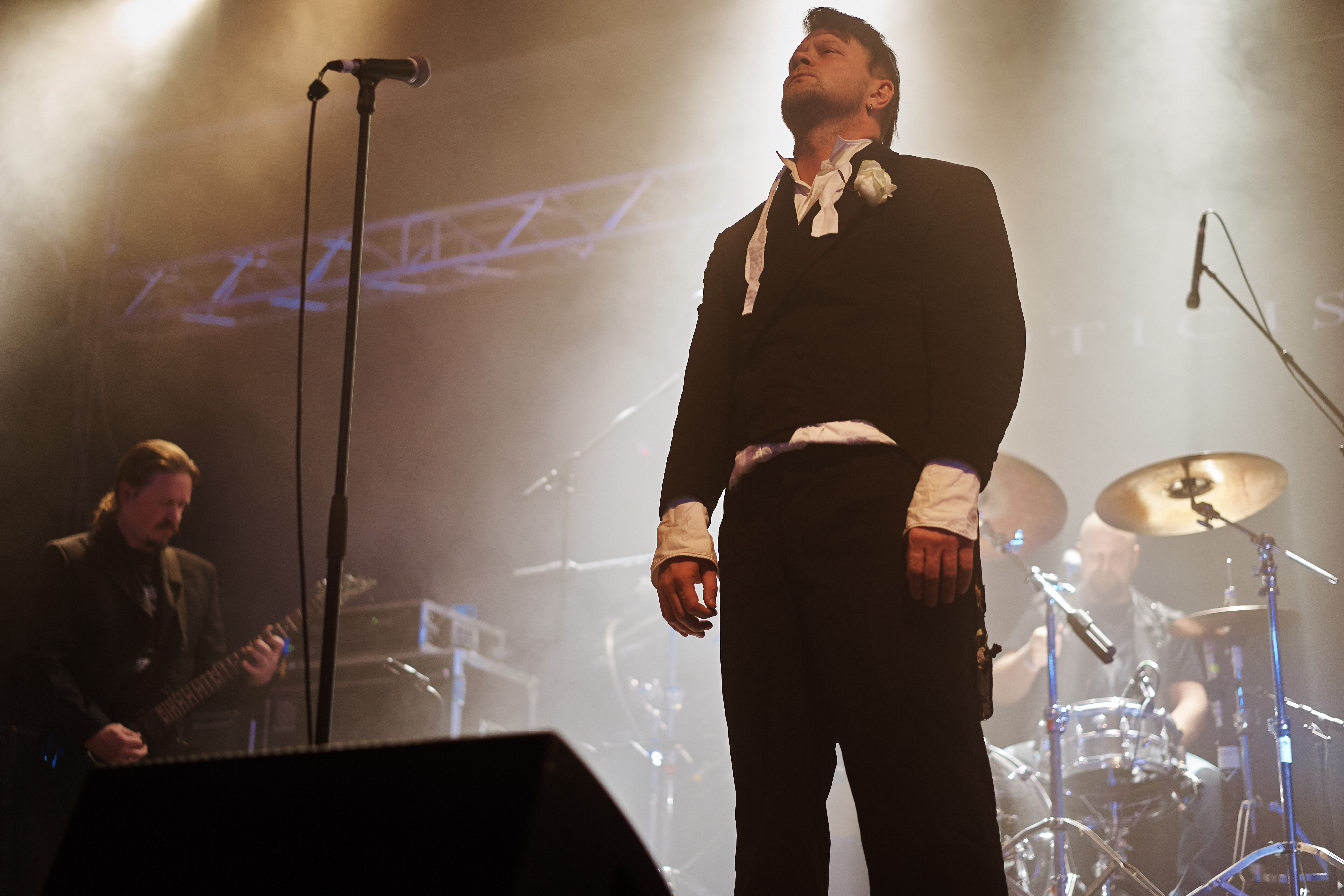 Finnish band Skepticism at Hammer of Doom Festival, Würzburg, Posthalle, 21.11.2015 Festivalsommer This photo was created with the support of donations to Wikimedia Deutschland in the context of the CPB project "Festival Summer". Personality rights warning Although this work is freely licensed or in the public domain, the person(s) shown may have rights that legally restrict certain re-uses unless those depicted consent to such uses. In these cases, a model release or other evidence of consent could protect you from infringement claims.